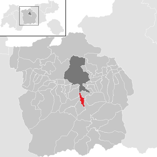 District Innsbruck Land